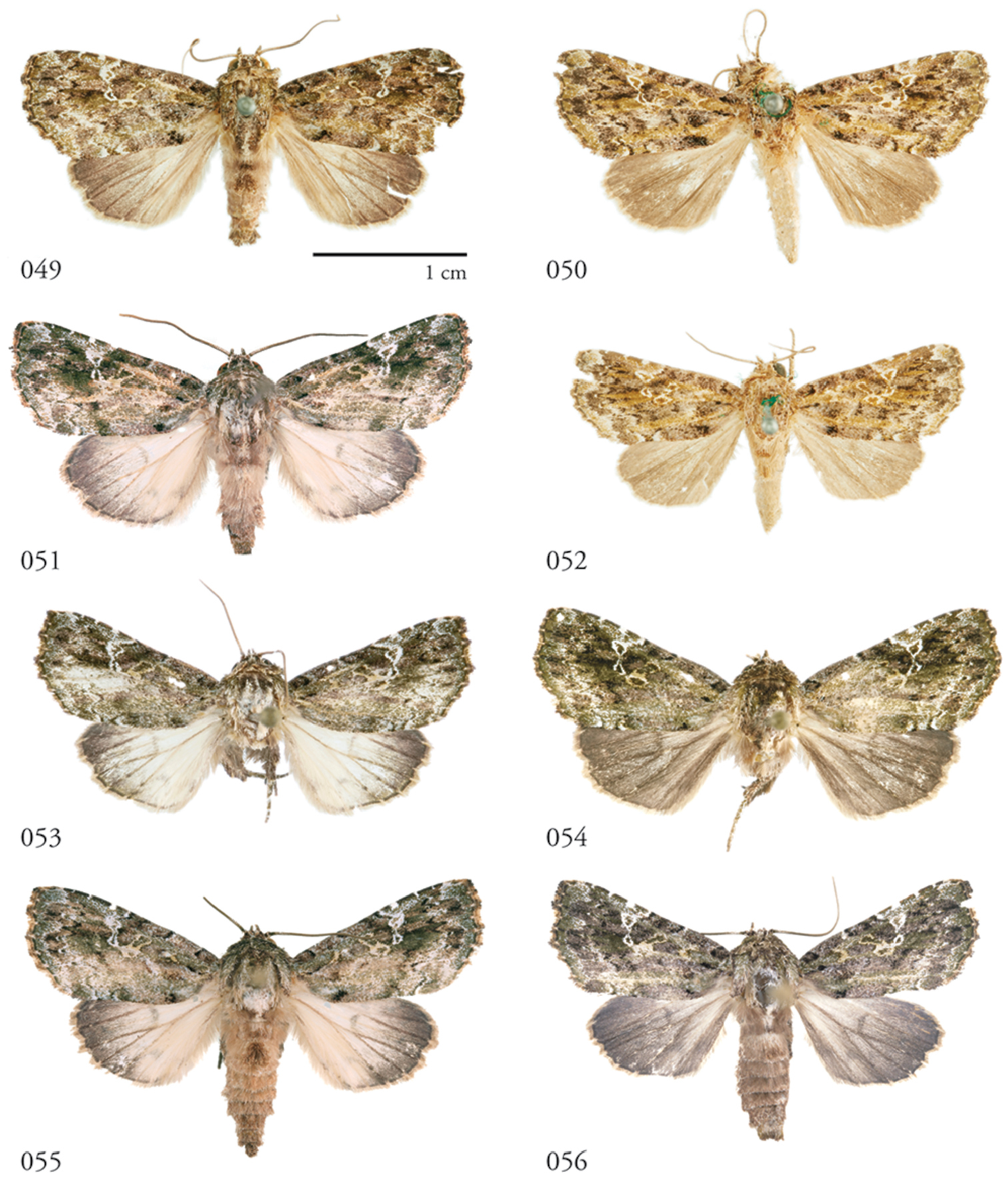 Figures 49–56; Lophomyra commixta, dorsal habitus. 49 Holotype ♂, French Guiana, USNMENT01370304, USNM Dissection 148186 50 ♀ French Guiana, USNMENT01370319, USNM Dissection 148086 51 ♂ Área de Conservación Guanacaste (ACG), Costa Rica, 11-SRNP-70741, USNMENT01370307 52 ♀ French Guiana, USNMENT01370317 53 ♂ ACG, 10-SRNP-70810, USNMENT01370328, USNM Dissection 148050 54 ♀, ACG, 10-SRNP-70436,USNMENT01370329, USNM Dissection 148051 55 ♂ ACG, 11-SRNP-69041, USNMENT01370325, USNM Dissection 148098 56 ♀ ACG, 12-SRNP-70644, USNMENT01370326, USNM Dissection 148106.